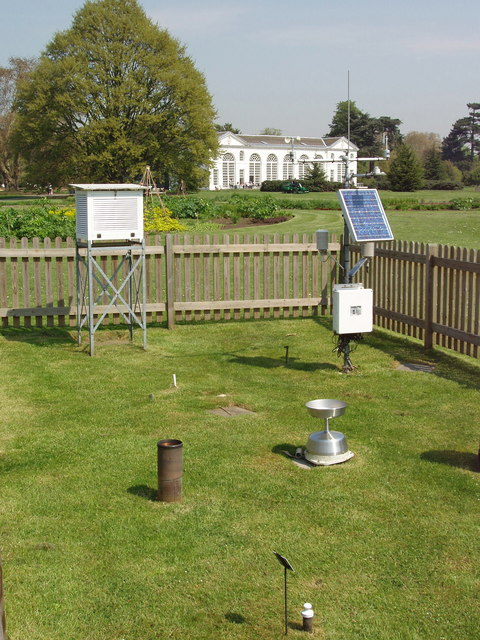 Weather station in Kew Gardens. Meteorological instruments on a lawn away from buildings and trees.